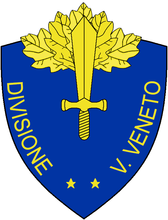 Coat of Arms of the Italian Army Division Vittorio Veneto as conferred by the Army General Staff in 2019